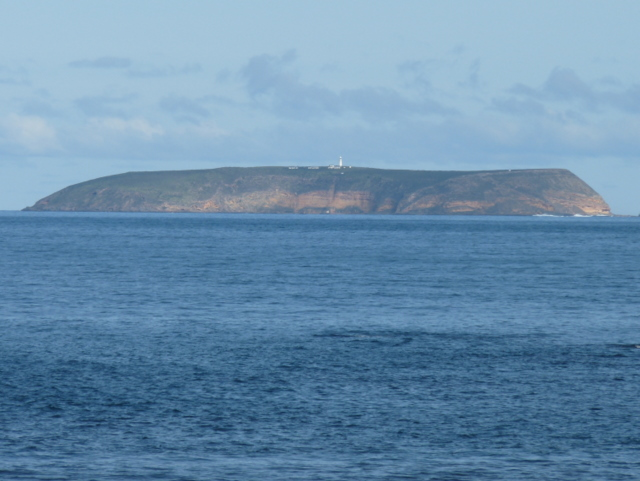 Althorpe Island, south of Cape Spencer in Investgator Strait. A lighthouse can just be seen on top of the island.